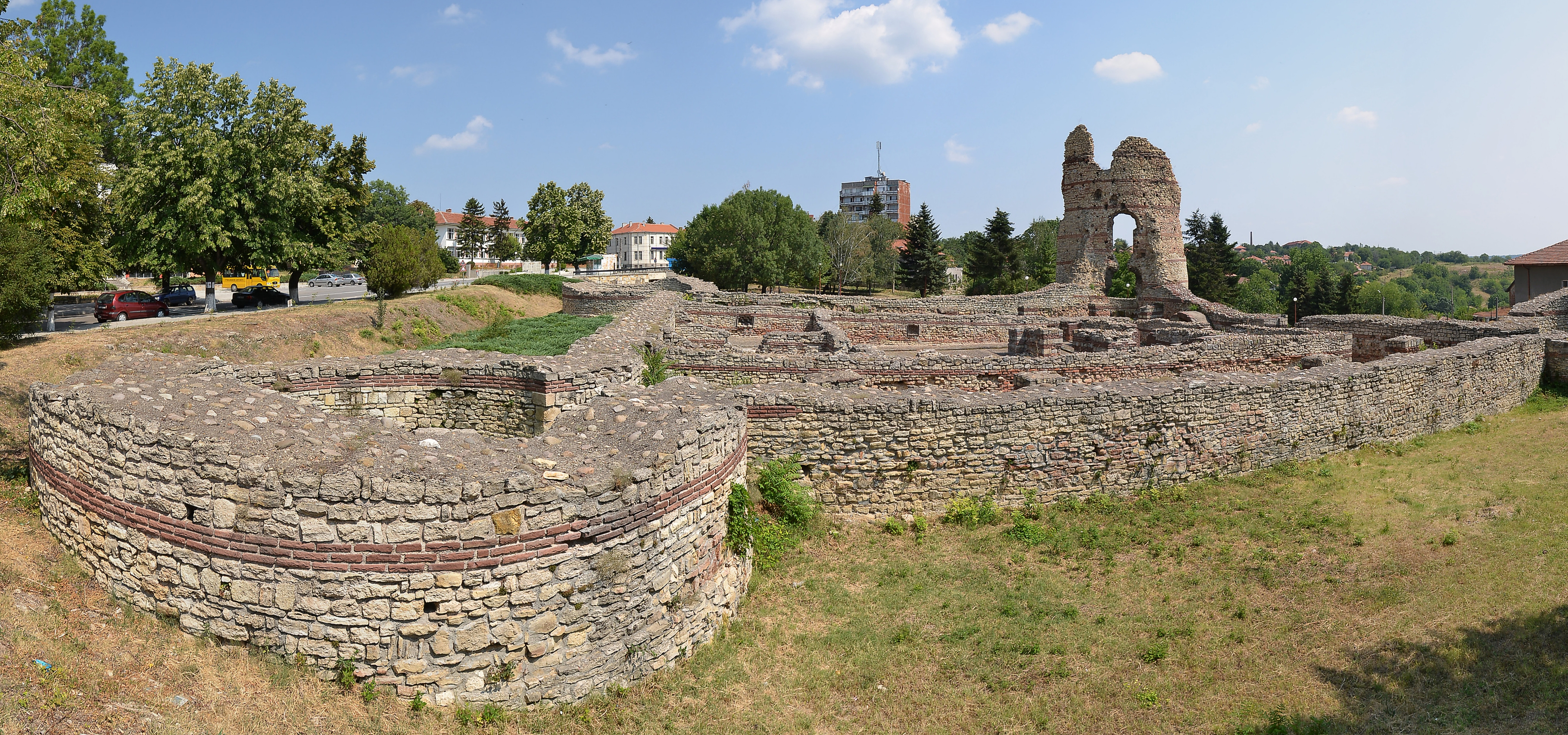 Kula (Кула), Bulgaria - ruins of Roman fortress Castra Martis